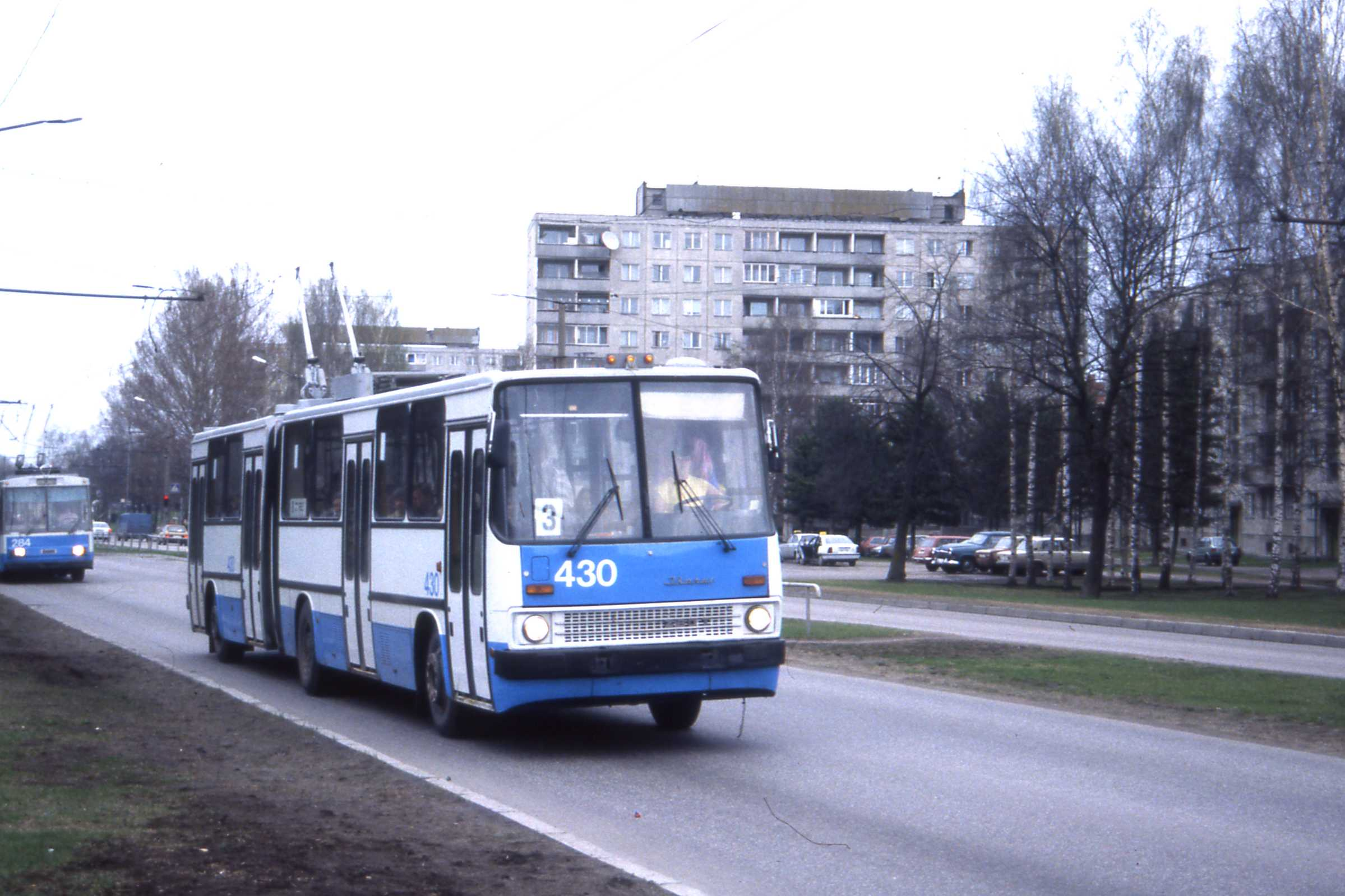 An Ikarus 280 articulated vehicle no 430, being chased down by a Skoda, no 284. This is quite an interesting vehicle … only 6 of the prized Ikarus 280.93 vehicles were put into service in Tallinn in the mid 1990s having been built for the short lived Hoyerswerda system in the GDR. 430 was one of 12 purchased by Hoyerswerda and all were disposed of when that system closed down. 430 was previously no 722 in the the Hoyerswerda fleet. The other six Hoyerswerda Ikarus vehicles were sold to Chelyabinsk in Russia, remaining in service until 2008. Ikarus 412T and 415T are still in service in Tallinn. 99 Skoda 14Tr vehicles were also purchased in the 1980s, 210-308. 284 was new in 1987 and is still in service, though earlier models have been withdrawn already.